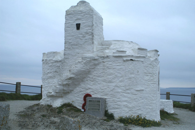 The Huer's Hut ovelooking Newquay Bay. See following Supplemental for a close-up of the explanatory plaque.